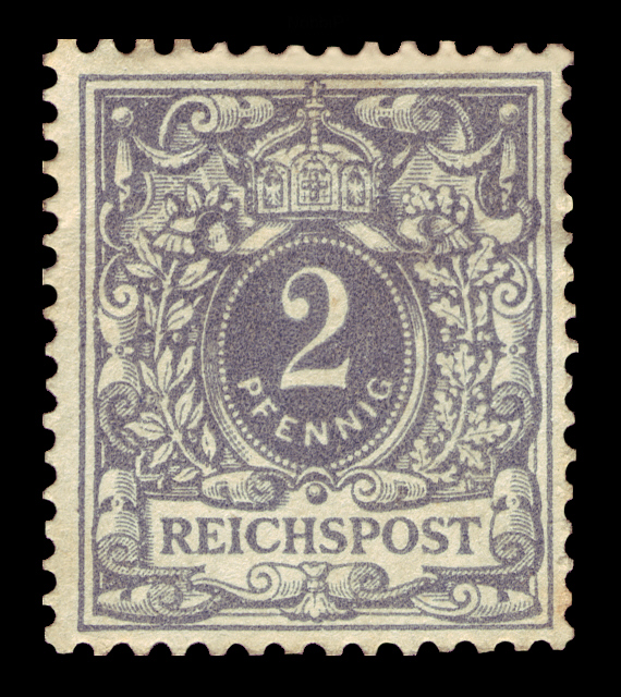 definitive stamp series Krone/Adler (Crown/Eagle) Graphics by Schilling Ausgabepreis: 2 Pfennig First Day of Issue / Erstausgabetag: 29. März 1900 Michel-Katalog-Nr: 52 (Deutsches Reich)